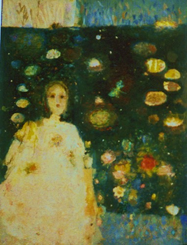 Oil painting by Marjaana Savander